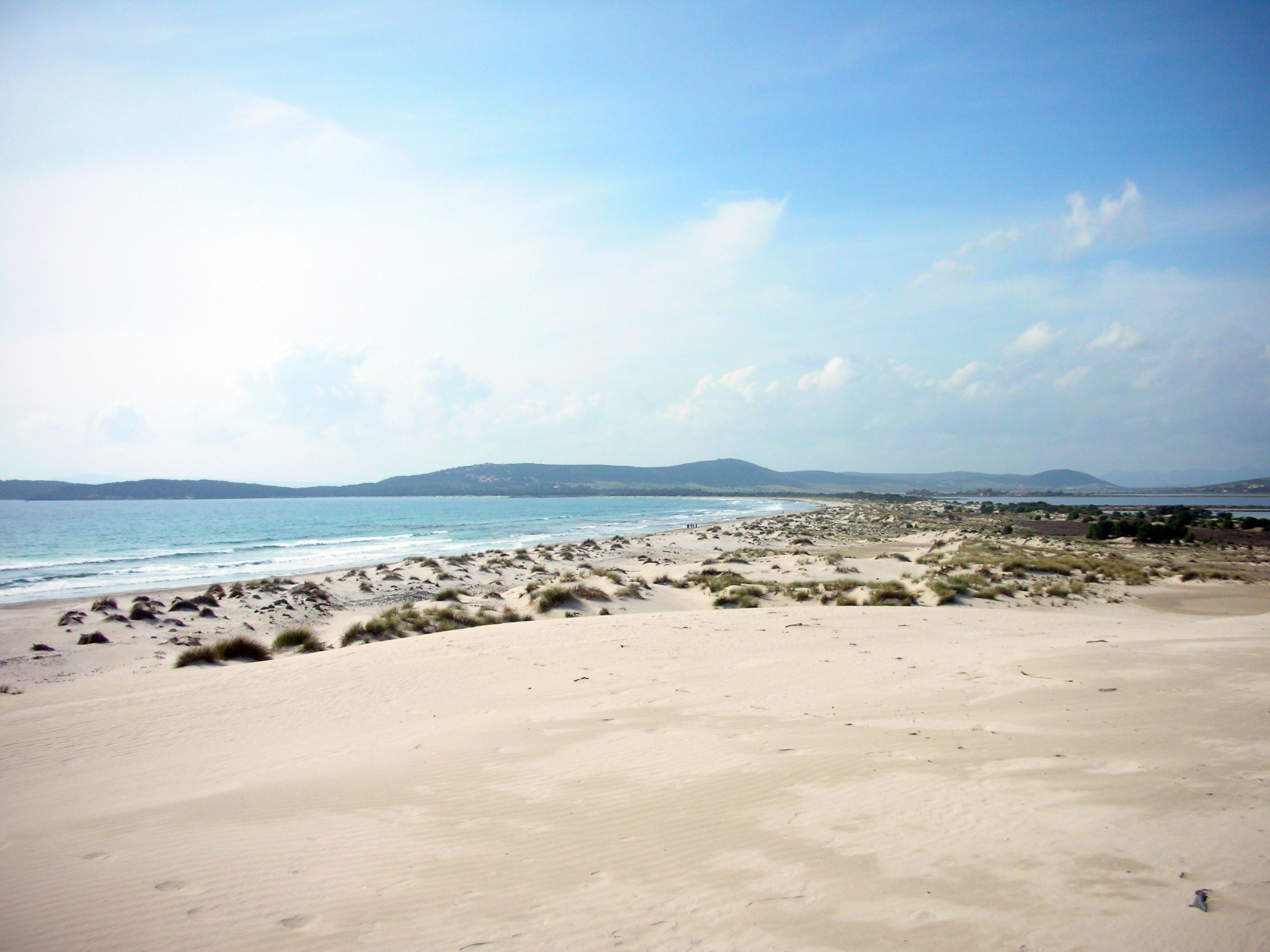 photo of Porto Pino beach, Sant'Anna Arresi, Sardinia, Italy